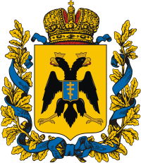 Coat of arms of Tavria Governorate, Russian Empire